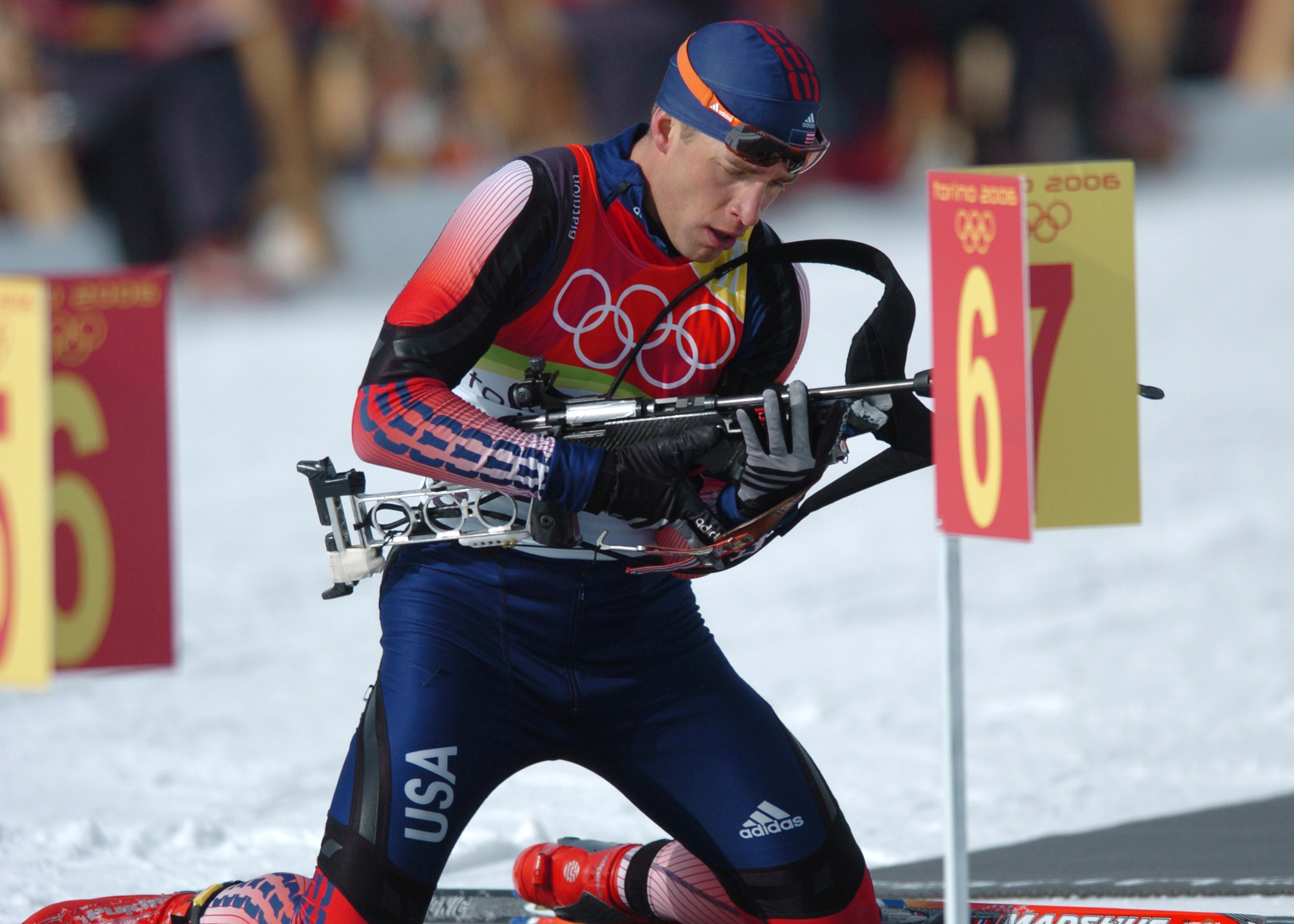 Spc. Jeremy Teela prepares to fire his .22-caliber rifle during the Men’s 10-kilometer Sprint biathlon Feb. 14. Teela placed 62nd in the competition that saw 90 athletes from throughout the world compete